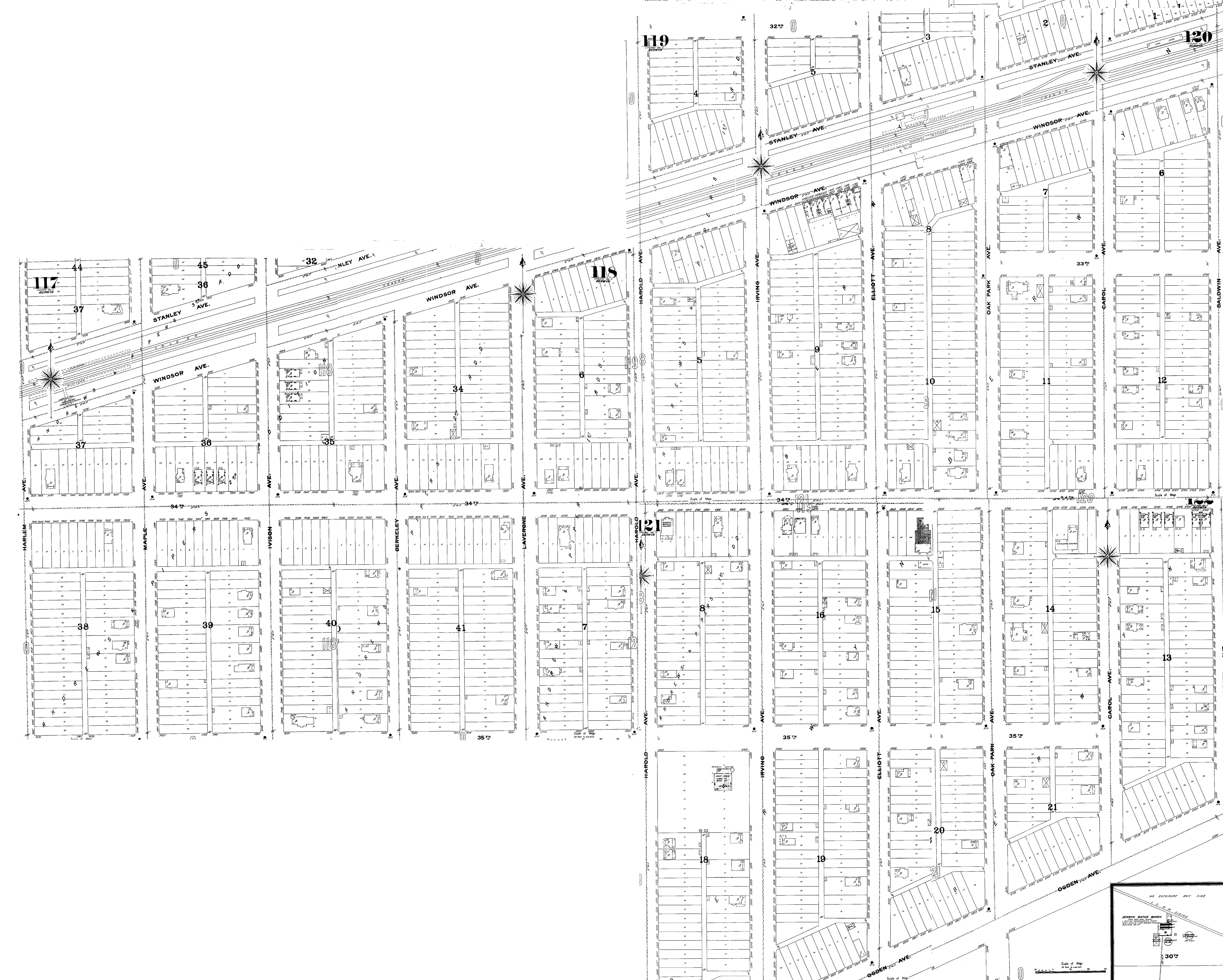 Berwyn, Illinois 1895 Sanborn Map Composite